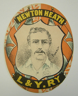 Jack Powell played for Newton Heath between 1886-1891. This is an original Sharpe's Card c 1890 depicting him as captain of Newton Heath. Powell is reputed to be the first ever Welshman to play for an English club at a professional level.